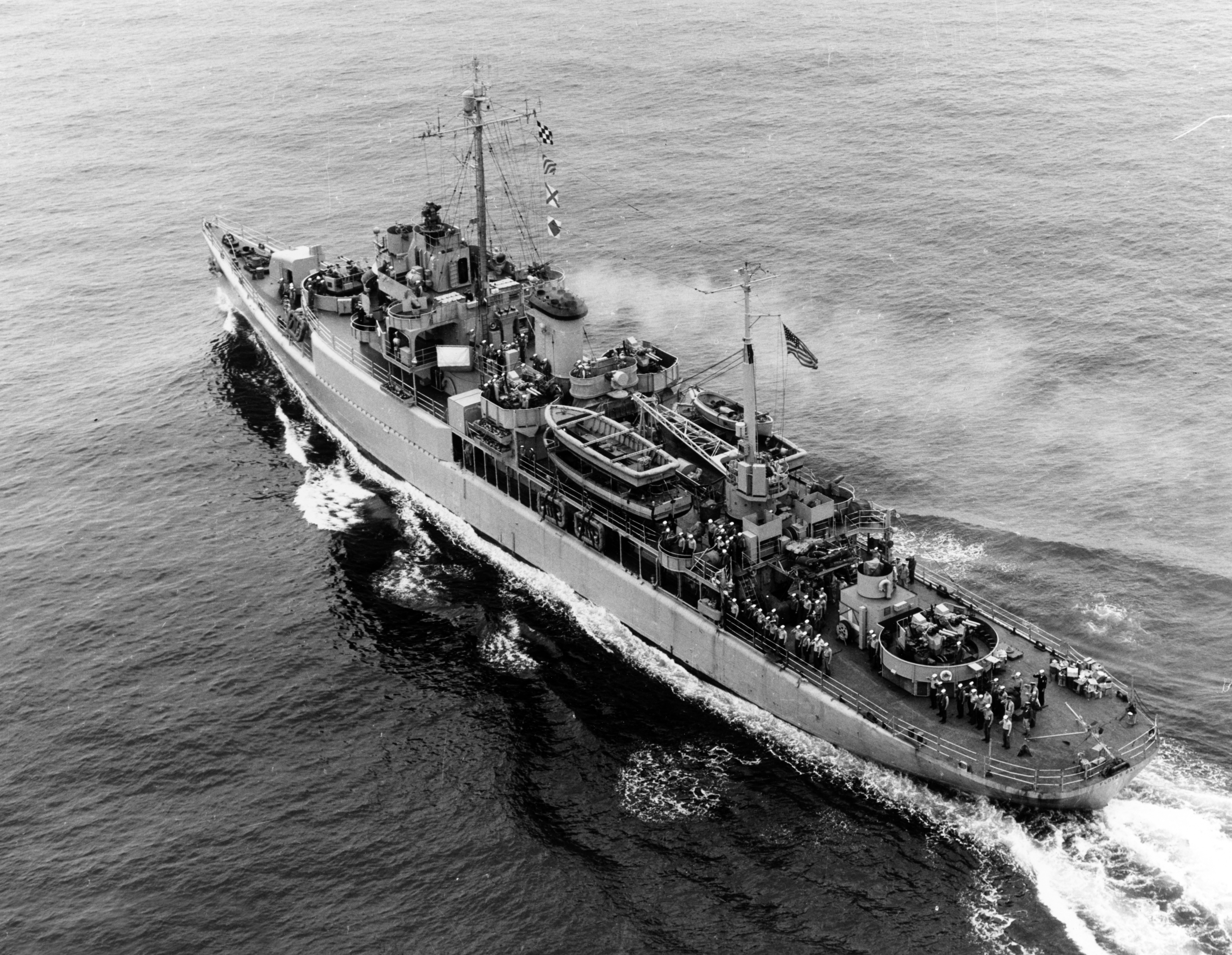 The U.S. Navy small seaplane tender USS Floyds Bay (AVP-40) underway at sea, circa in the 1950s. The quadruple 40mm gun mount on the fantail was added circa in 1948 and removed circa in 1956.